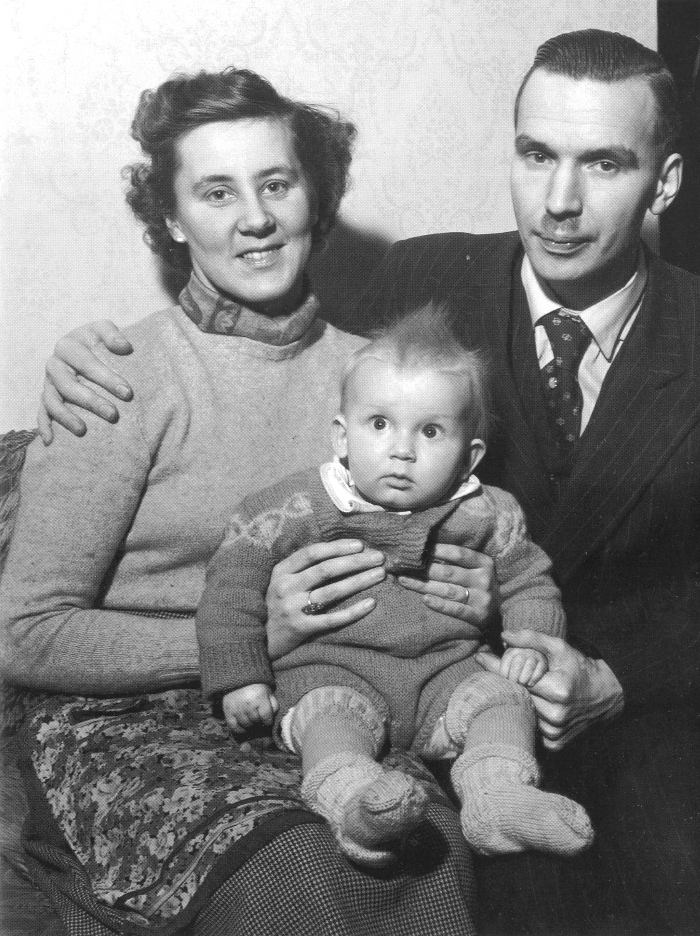 Photograph of Carmen and Erik W. Tawaststjerna, with their son Erik T. Tawaststjerna.